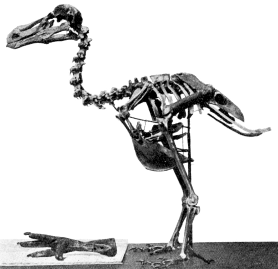 Skeleton of a dodo put together from bones from a marshy pool in Mauritius, and the dried leg ("London foot") of a specimen which was brought alive to Europe about the year 1600, in Natural History Museum.